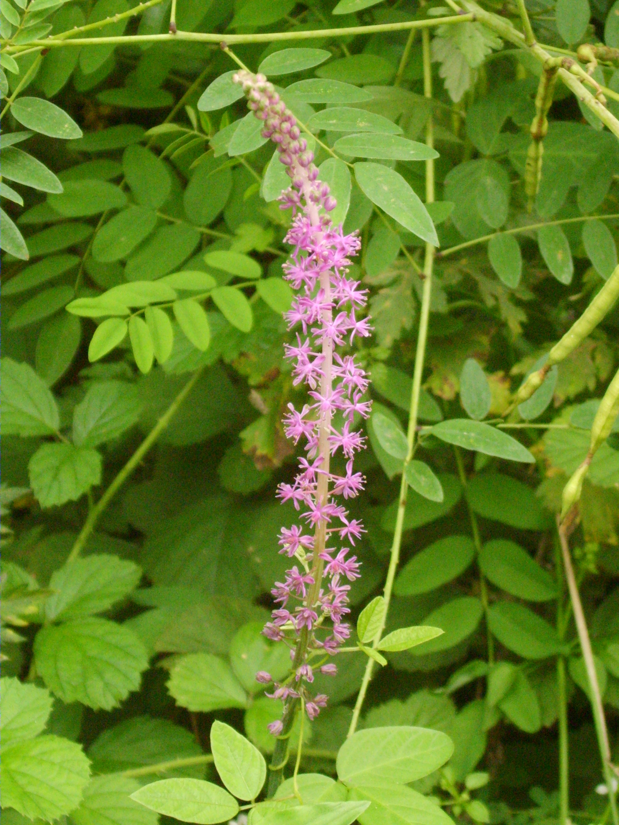 Barnardia japonica flowers in Incheon, Korea